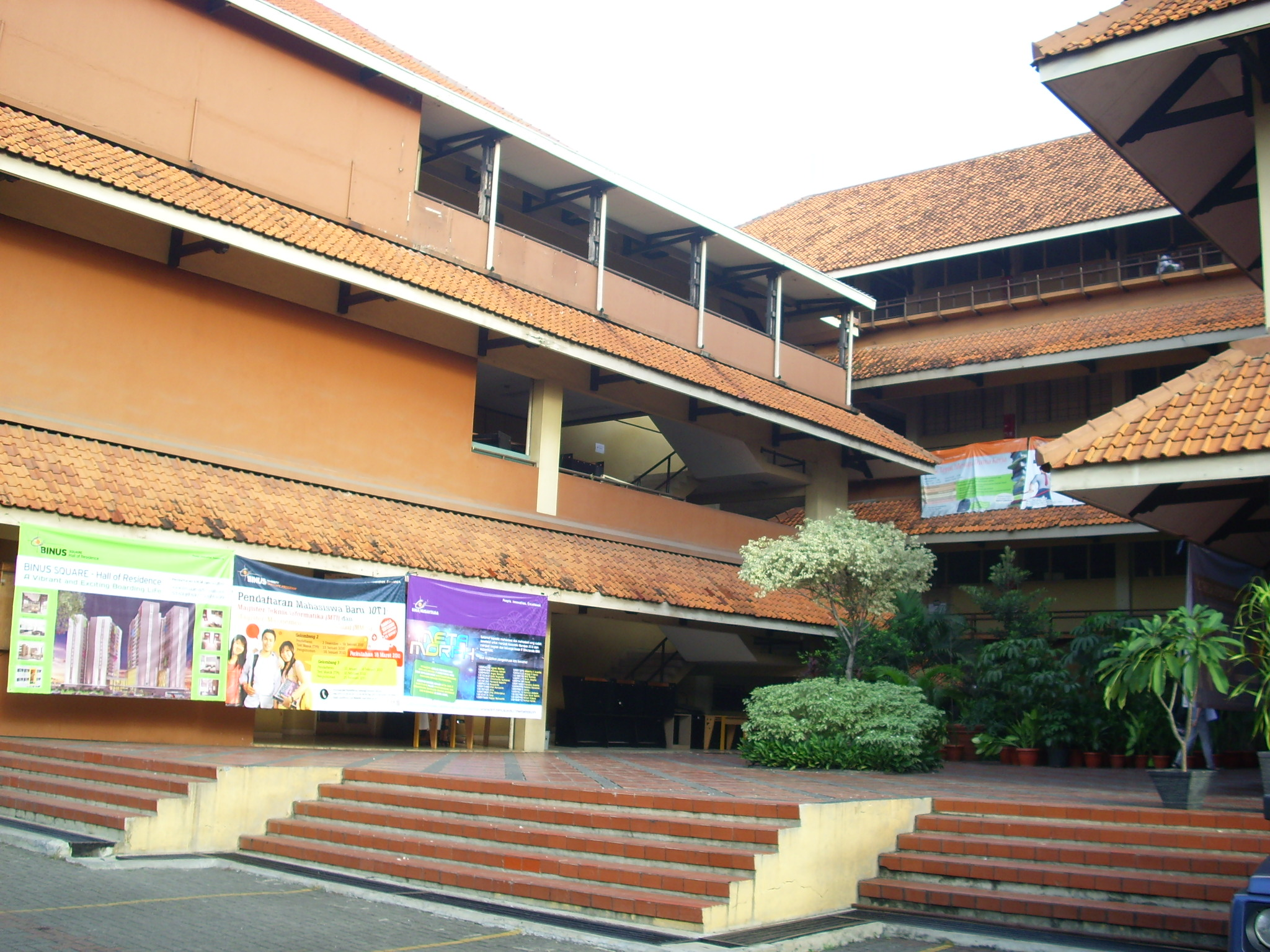 This is the photo of Syahdan Campus of Bina Nusantara University. This building is located at K H. Syahdan Street, 9, Kemanggisan, Palmerah, Jakarta Barat 11480.